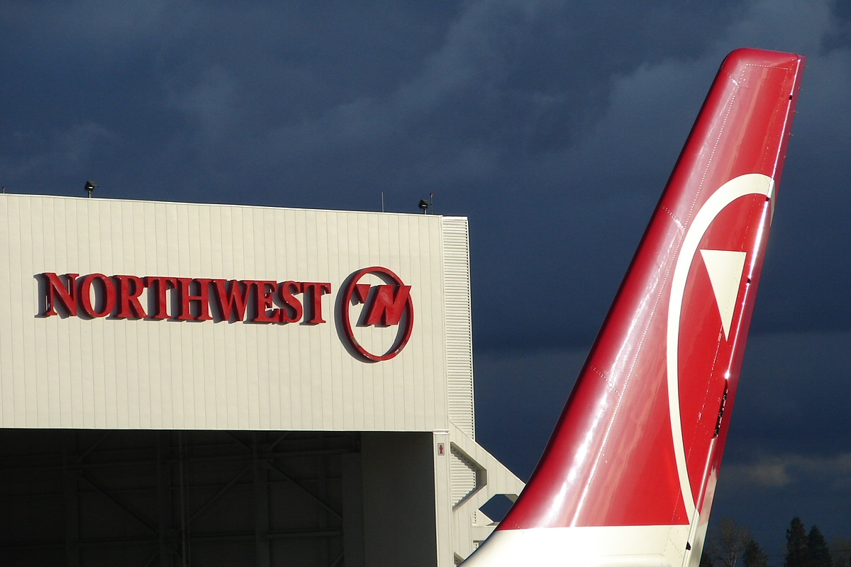 couldnt resist this photo op, an NWA A-330 and the NWA maintence facility at SEA-TAC.